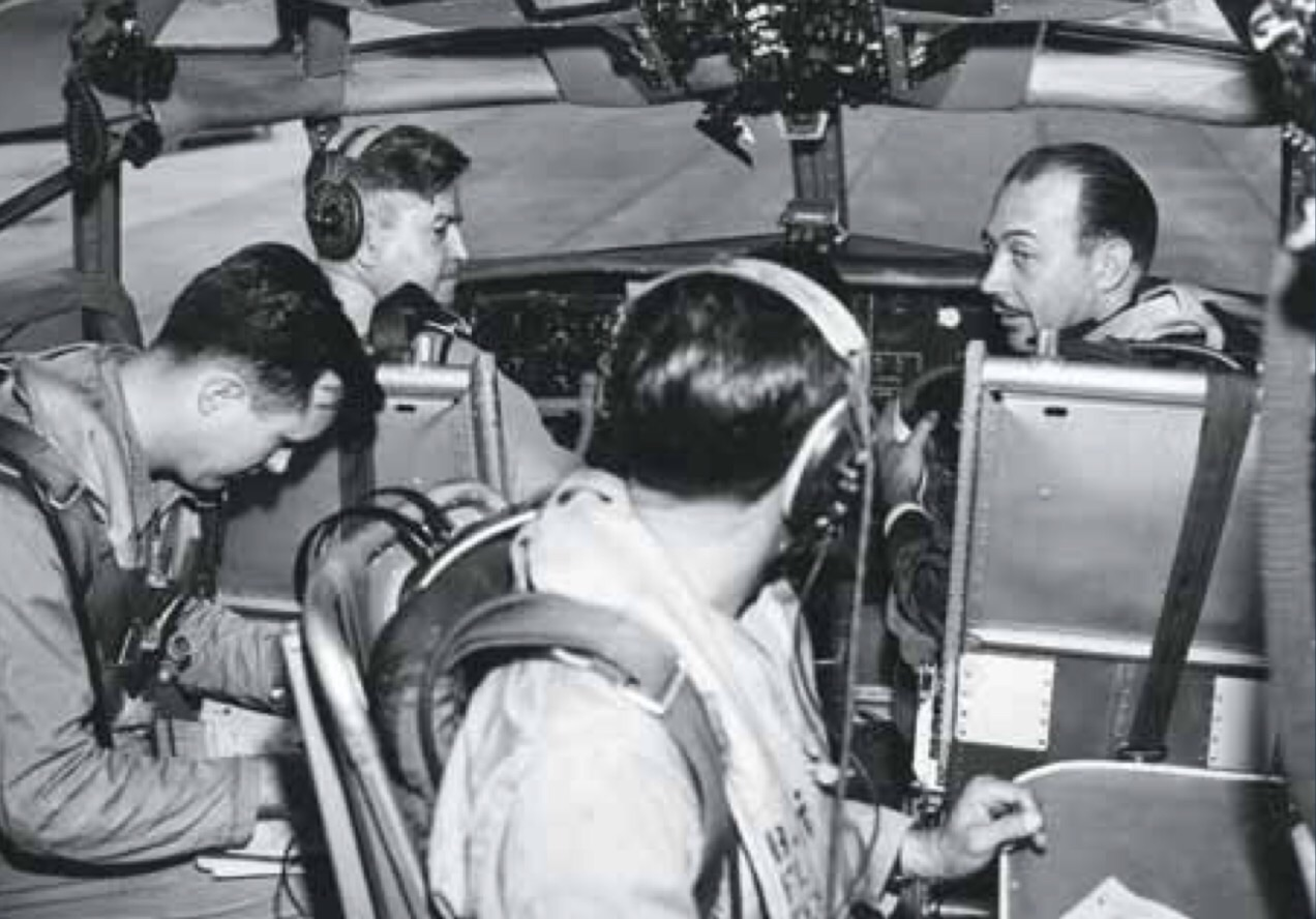 CINCSAC Gen. Curtis LeMay and Boeing test pilot Tex Johnston prepare to piloting the brand new Boeing KC-135 tanker-transport aircraft on a test flight.